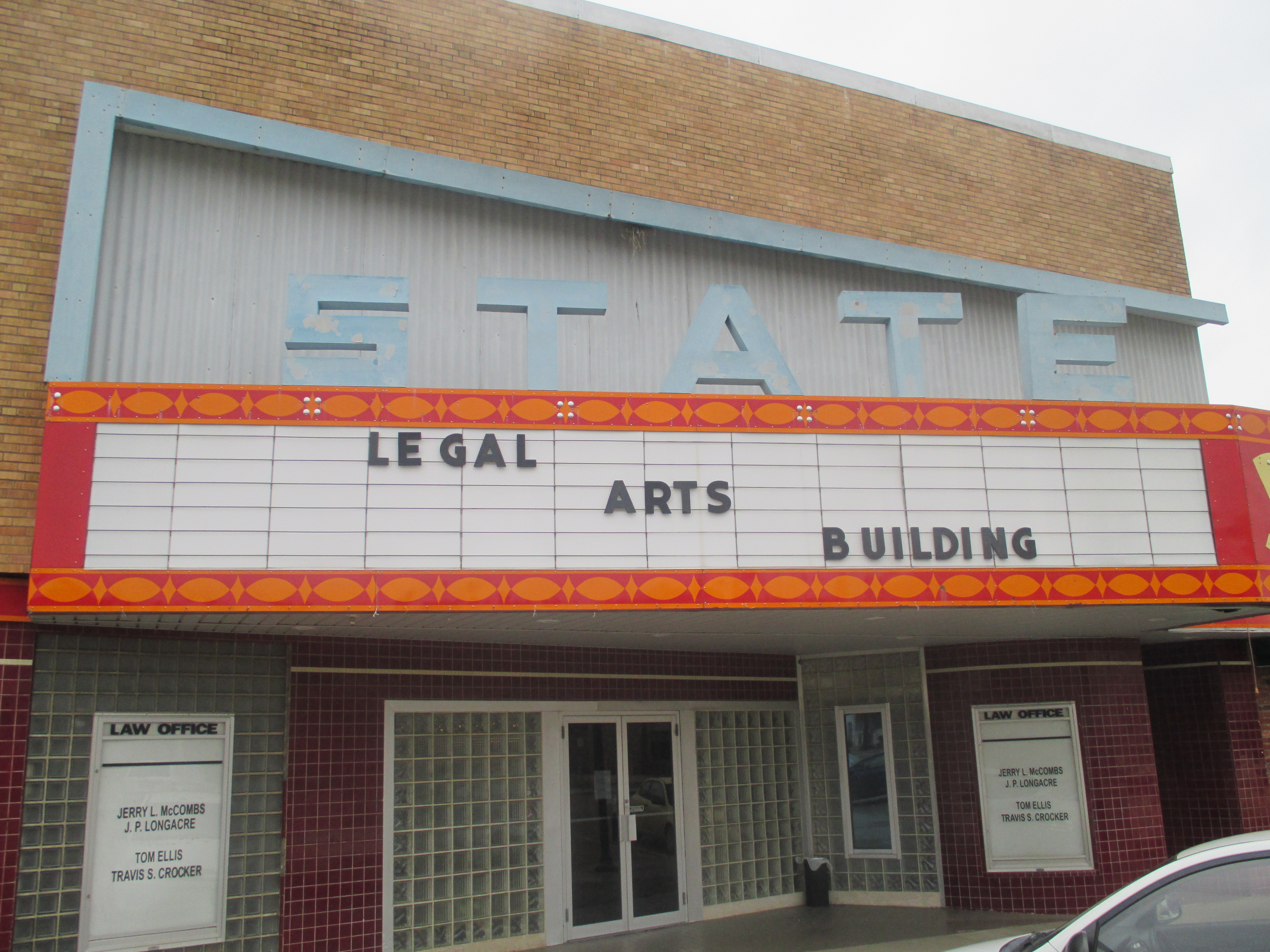 The former State Theater in Idabel, McCurtain County, Oklahoma. A former cinema, now housing law offices. Credits I took photo with Canon camera of former State Theater, now a law office.